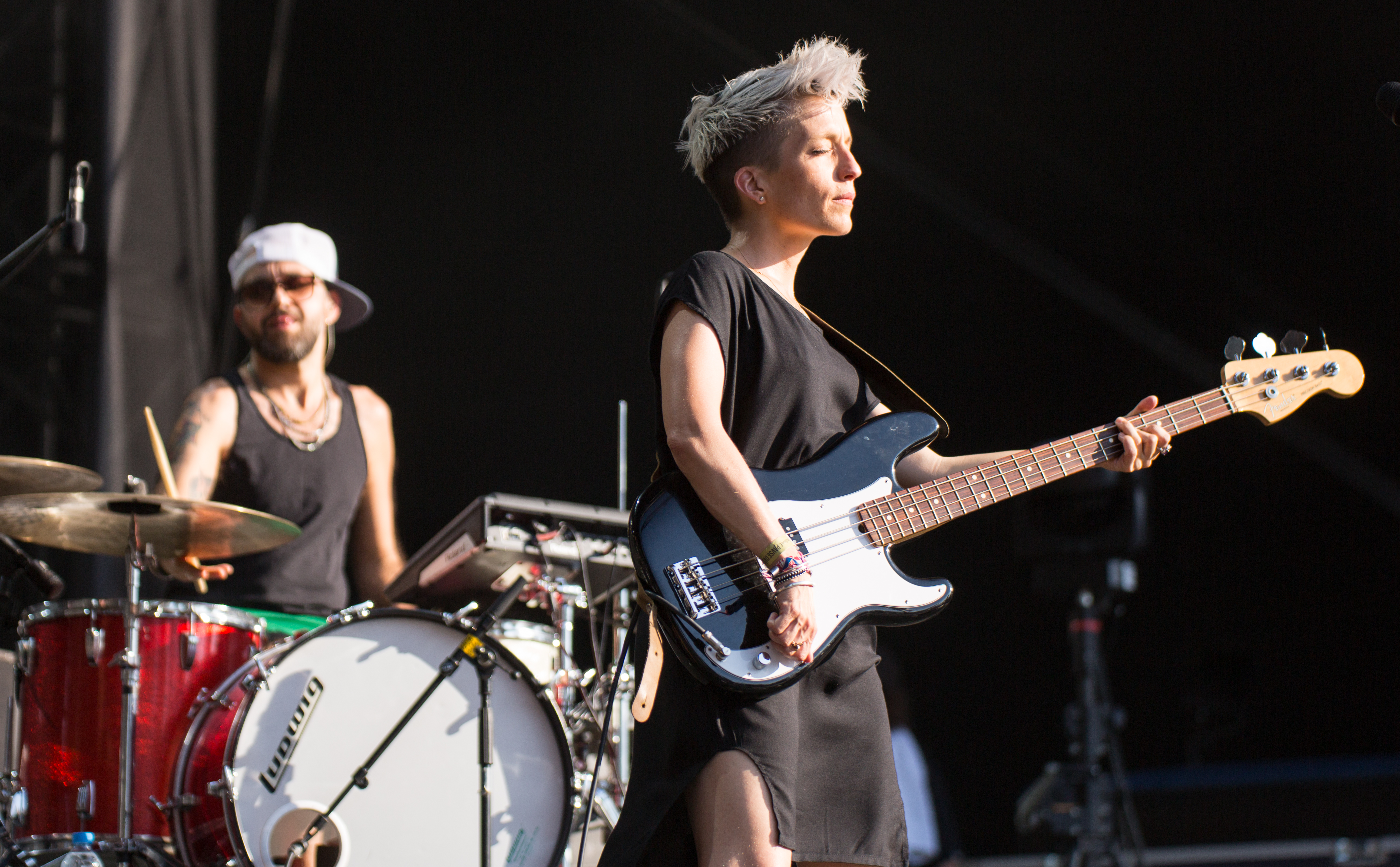 French singer and songwriter Jeanne Added at 2015 Pause Guitare.